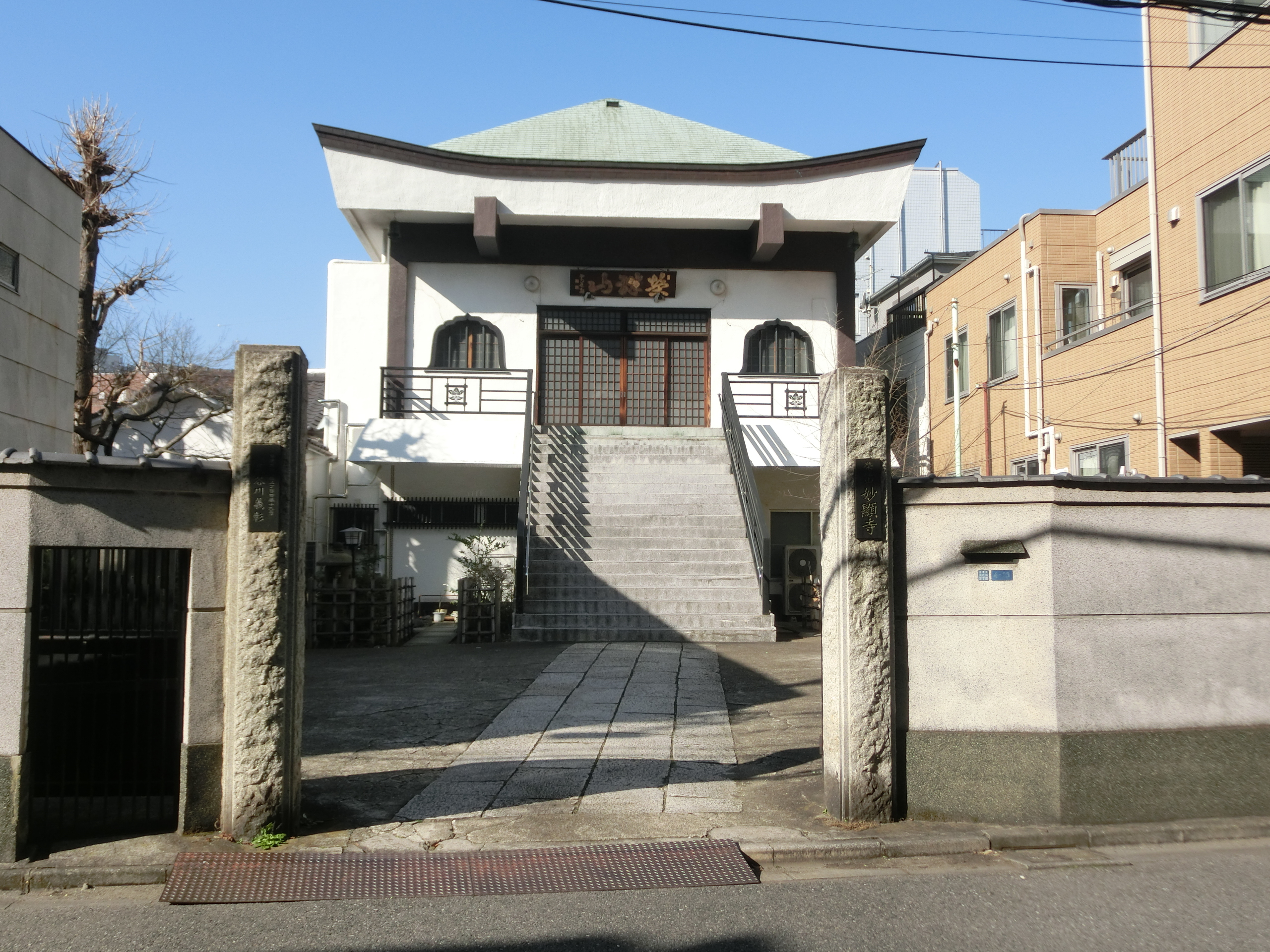 Myoken-ji (Taito)